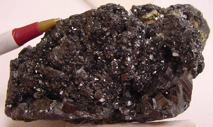 Enargite. Pen for scale. Mineral collection of Bringham Young University Department of Geology, Provo, Utah. Photograph by Andrew Silver. BYU index 3-3004, 3Cu_2S - As_2S_5.